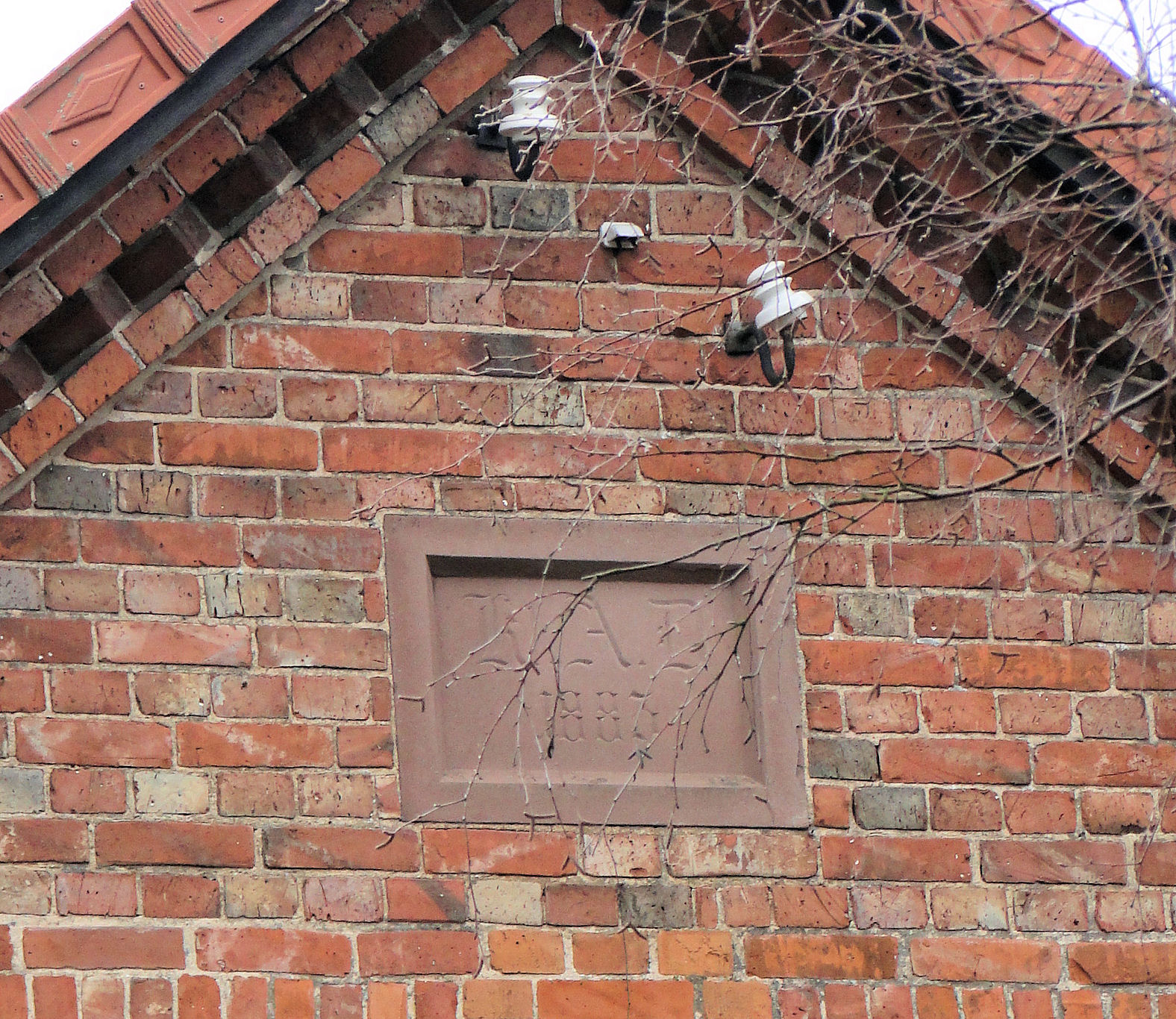 Inscription of Klosteramt Dobbertin at a gable in Jellen, district Parchim, Mecklenburg-Vorpommern, Germany